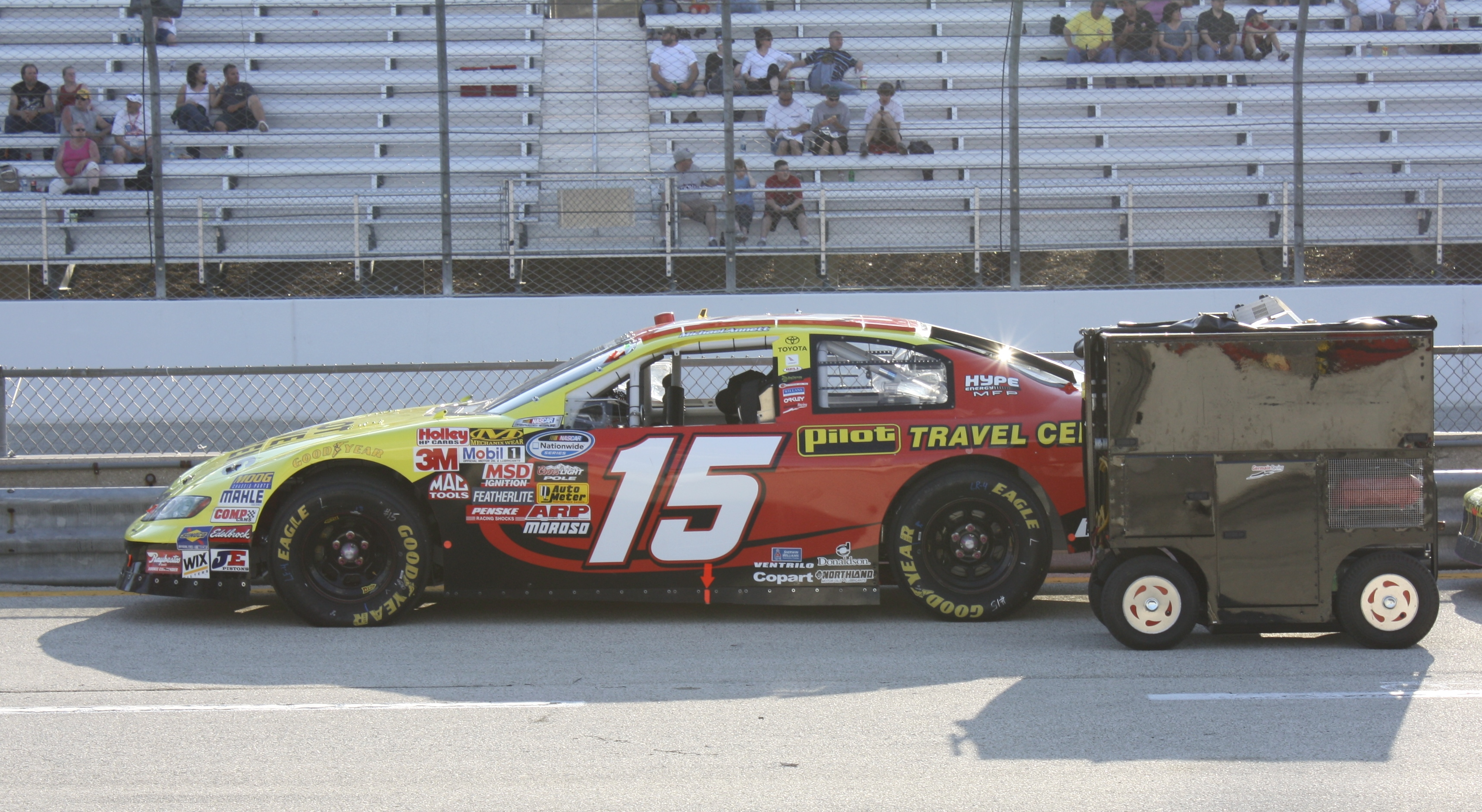 NASCAR driver Michael Annetts Toyota at the 2009 Northern 250 Nationwide Series race at the Milwaukee Mile.